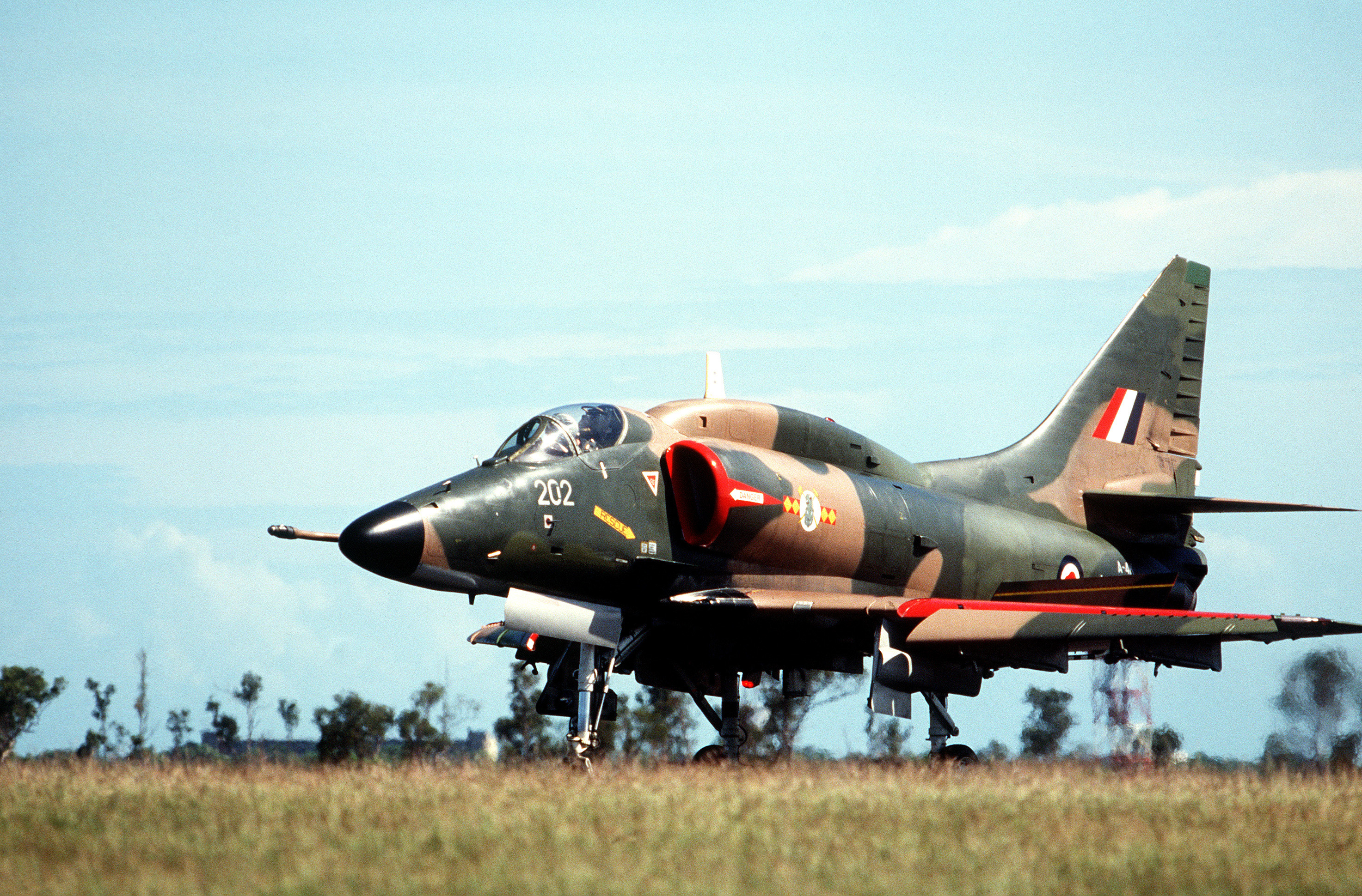 A Royal New Zealand Air Force Douglas A-4K Skyhawk aircraft (s/n NZ6202) from No. 75 Squadron during the joint Australia/New Zealand/US exercise "Pitch Black '84" on 22 April 1984 at RAAF Darwin, Northern Territories (Australia).